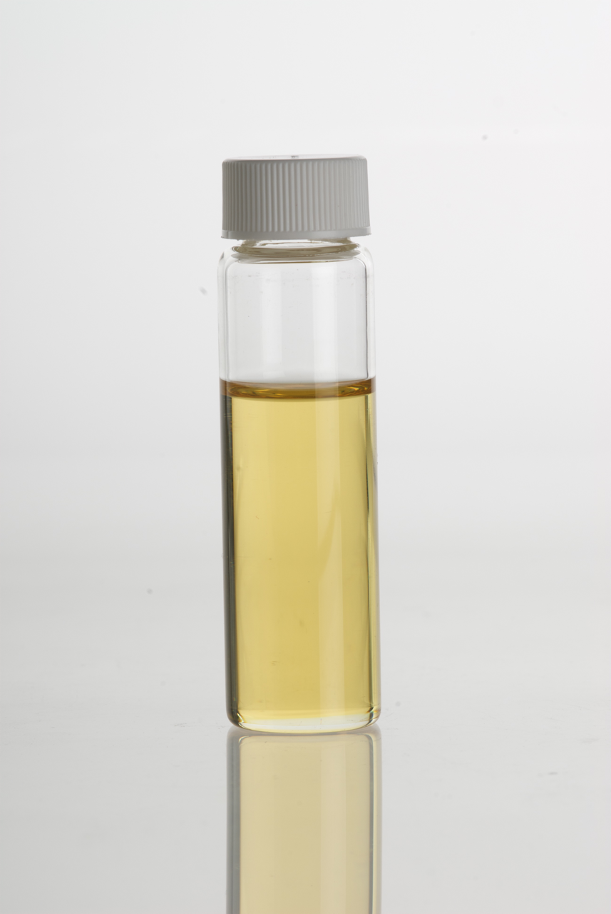 Ylang-ylang (Cananga odorata) essential oil in a colorless glass vial